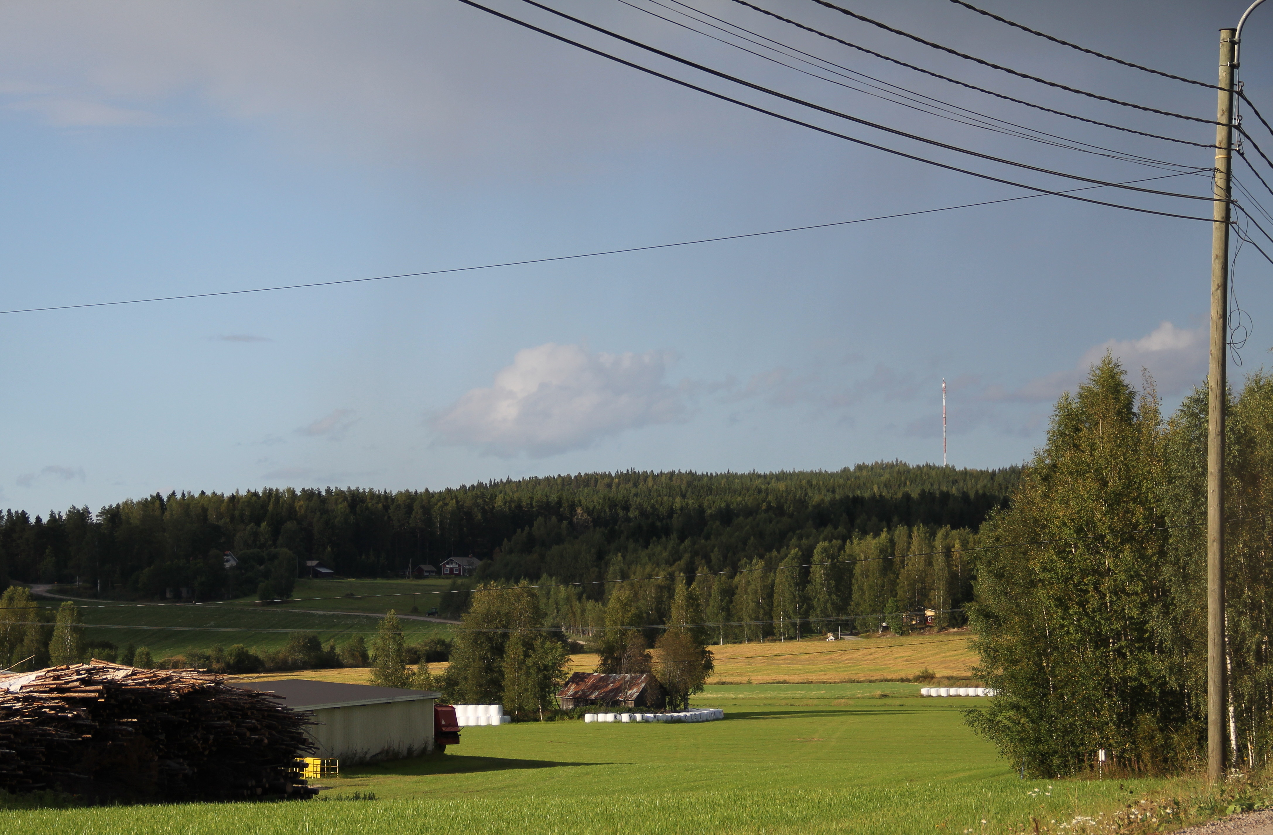 Koivistonkylä, Äänekoski, Finland. - View from the Village Hall.